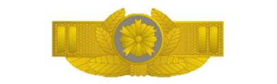 Brooch rank insigna for chief superintendent of japanese police